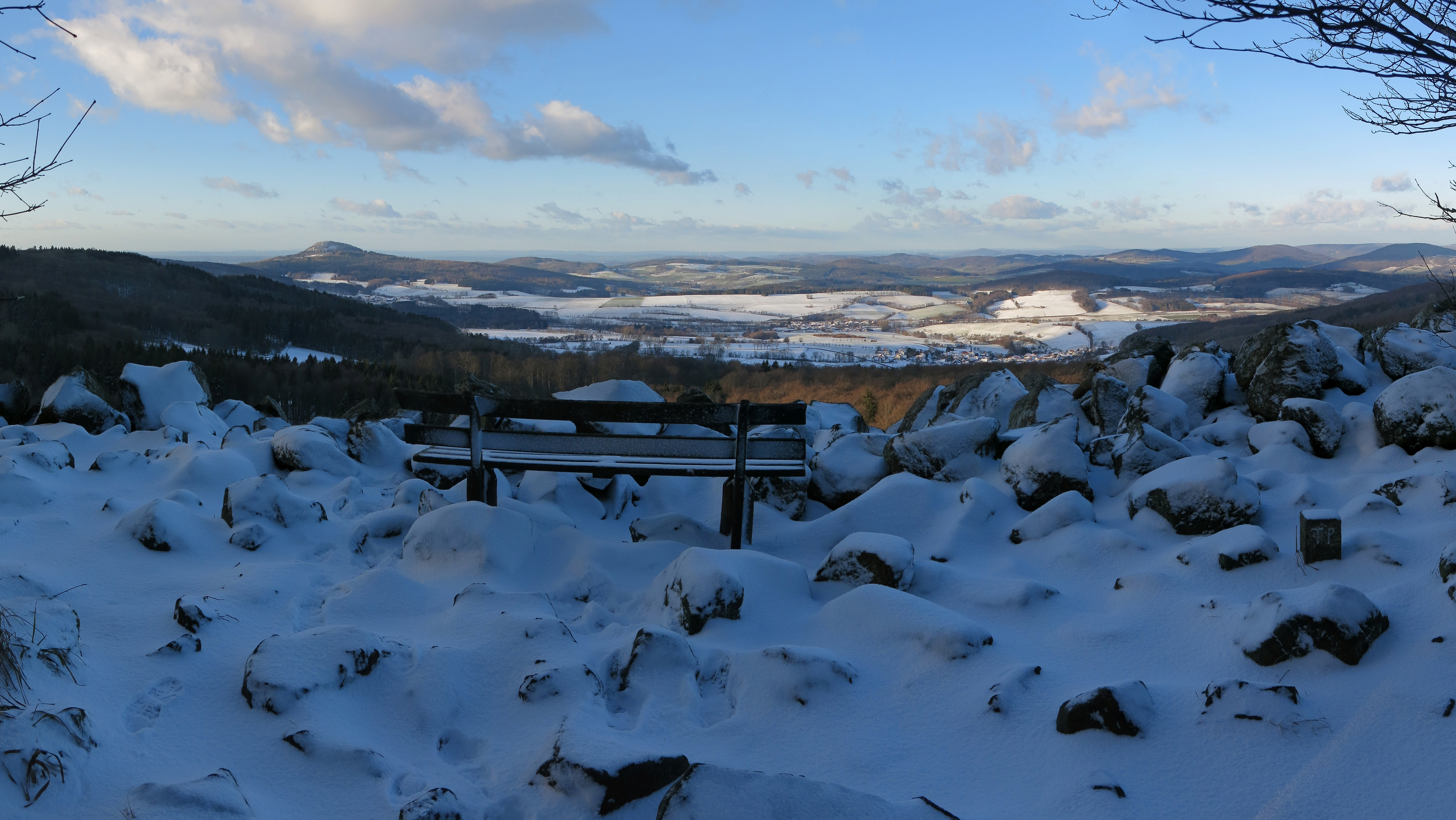 Winter on the Schafstein in the Rhön Mountains looking to the north